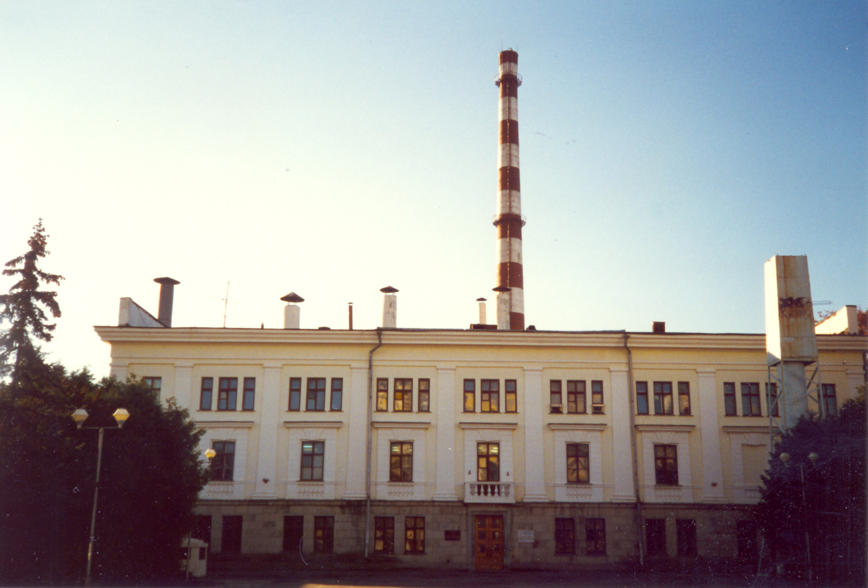 The world's first nuclear power plant was built at the Institute of Physics and Power Engineering (IPPE) at Obninsk, Russia. Photo Credit: IAEA